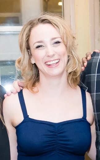 Kit Steinkellner at the premier of Sorry_for_Your_Loss_at_the Toronto_International_Film_Festival